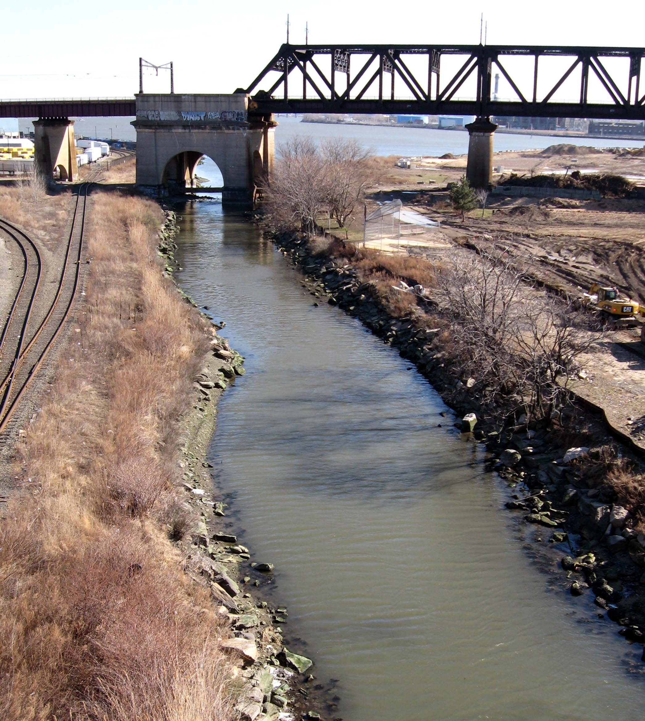 Bronx Kill, looking east on a sunny February day from east pedestrian ramp of Randals Island end of Bronx leg of Triboro Bridge